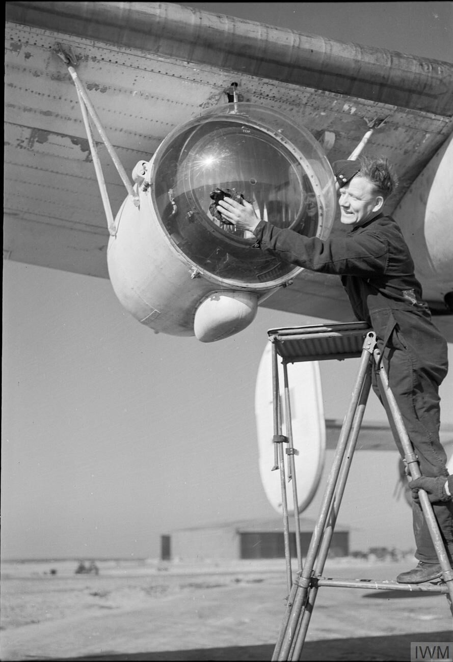 Anti-Submarine Weapons: Leigh Light used for spotting U-boats on the surface at night fitted to a Liberator aircraft of Royal Air Force Coastal Command.